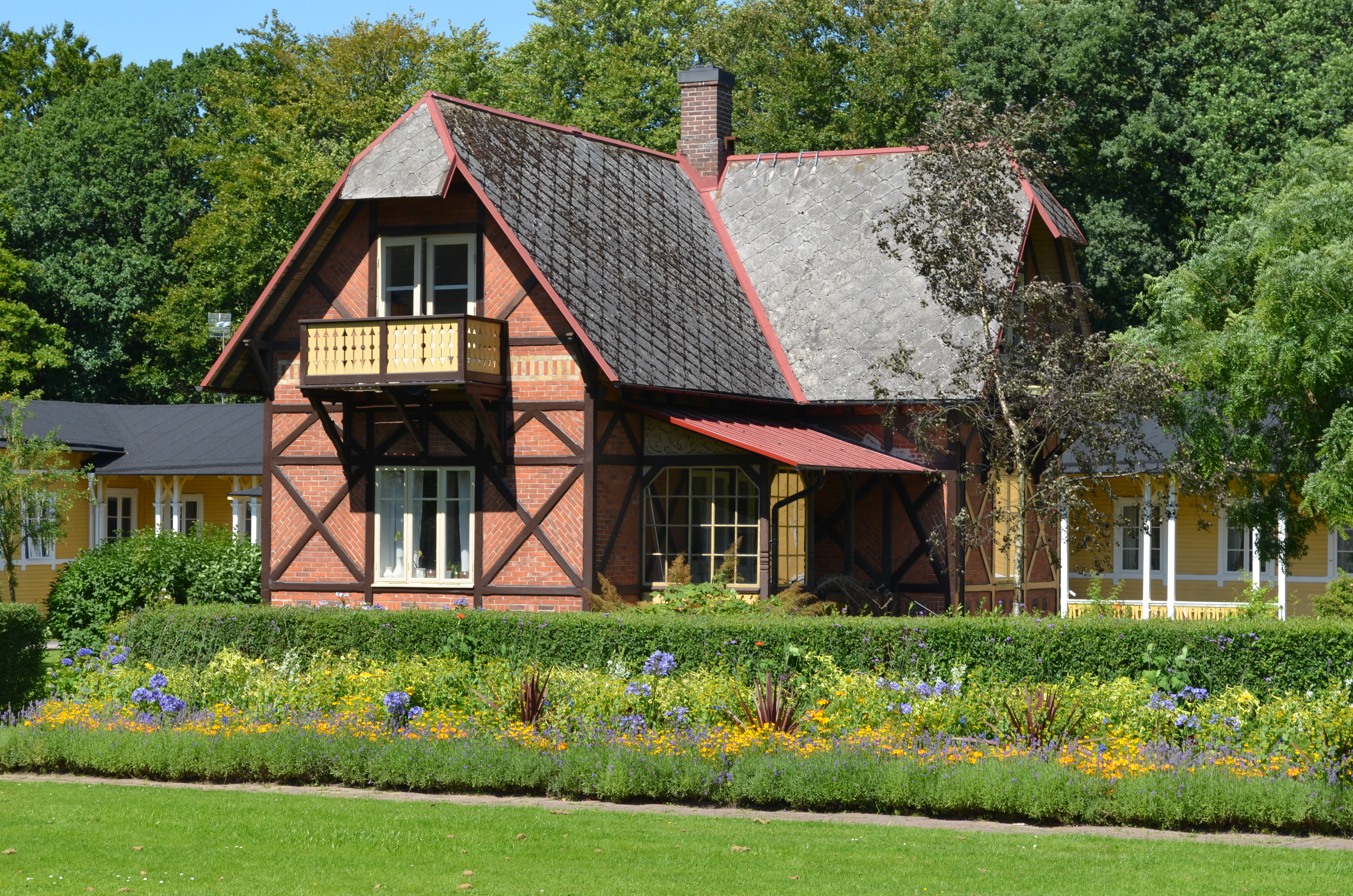 Villa Viola in Ramlösa hälsobrunn.